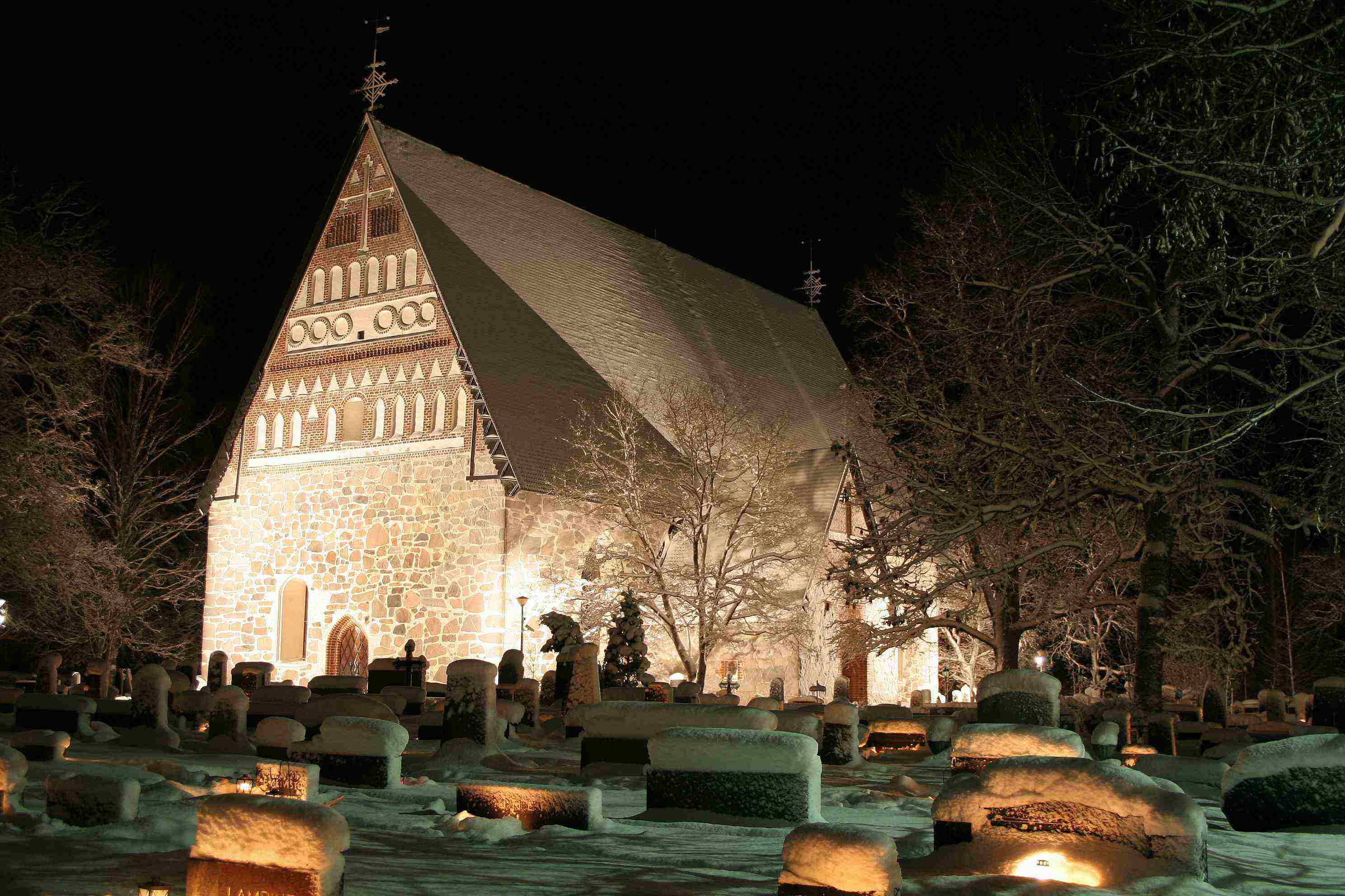 The Church of Hollola is a medieval stone church built in 1495–1510 during the end of the Catholic era, since the 1520s an Evangelic Lutheran church of the parish of Hollola